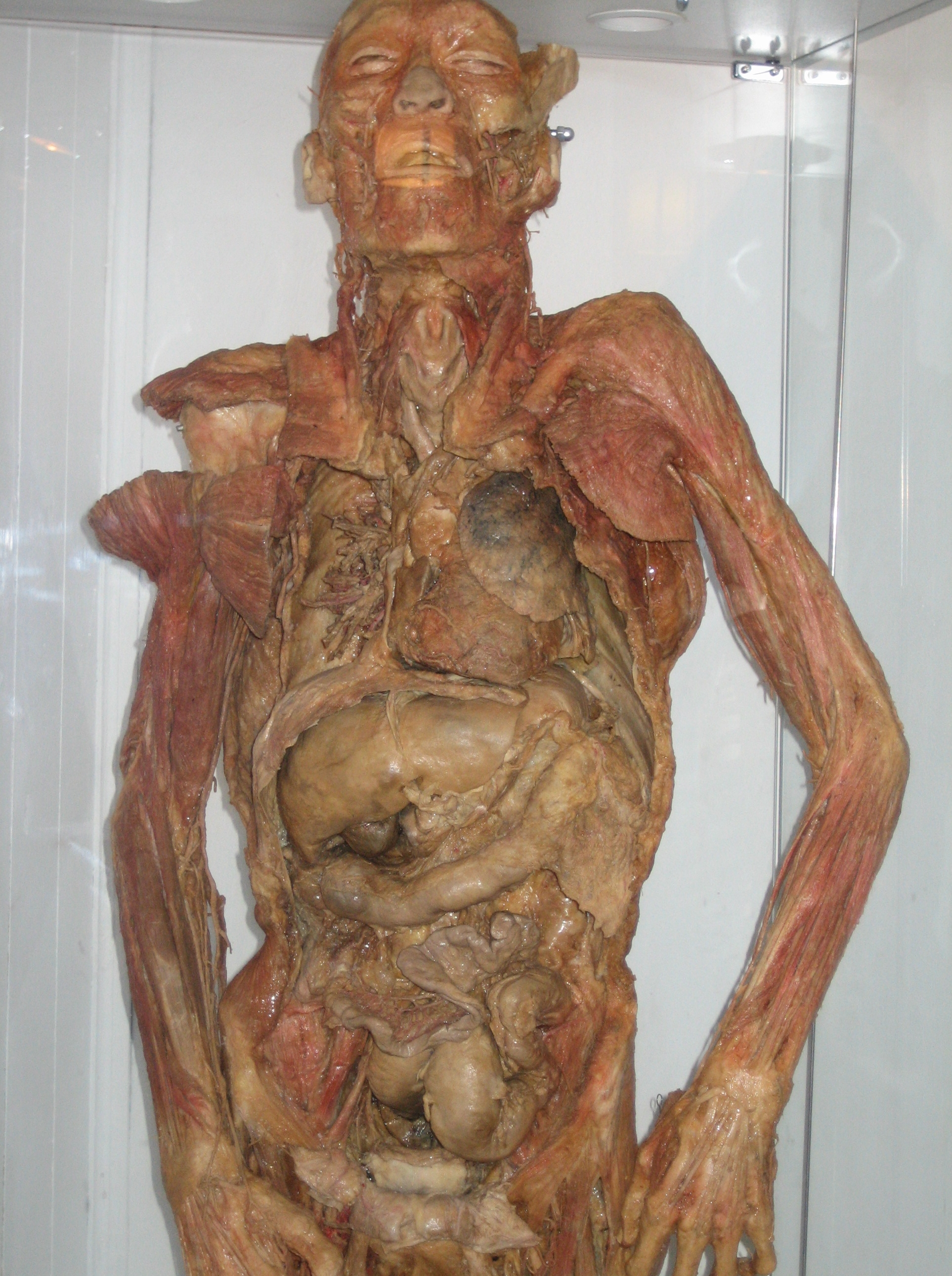 An embalmed body (corpse) in the Estonian Health Care Museum in Tallinn.